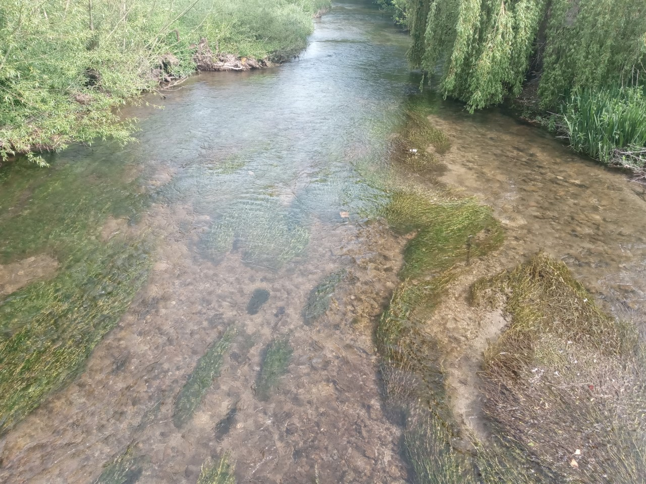 Common water-crowfoot in the River Allen